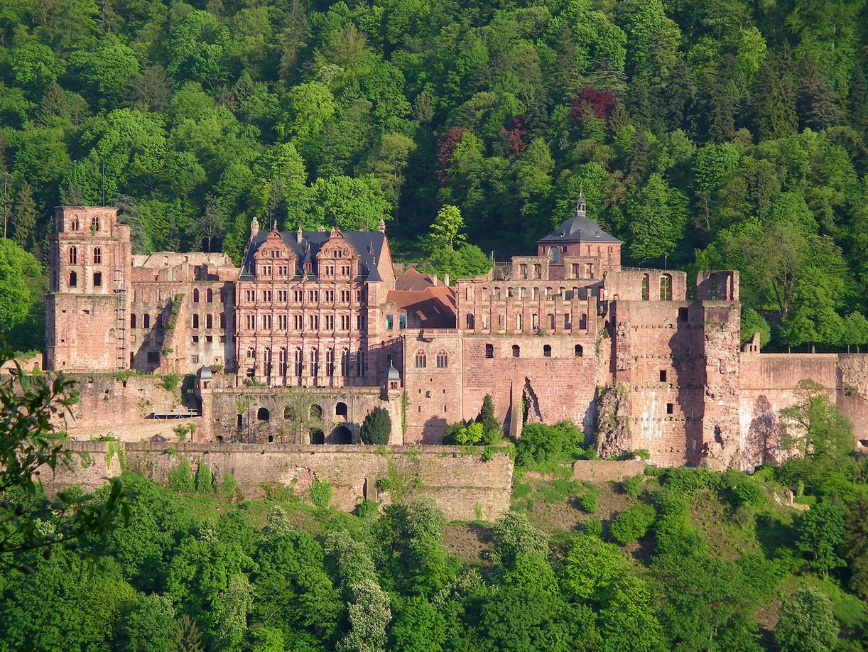 Heidelberg castle, total view from NNW